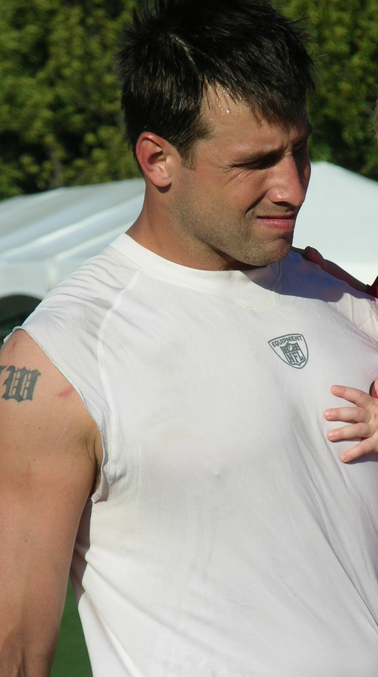 San Francisco 49ers linebacker Matt Wilhelm at training camp in Santa Clara, California.